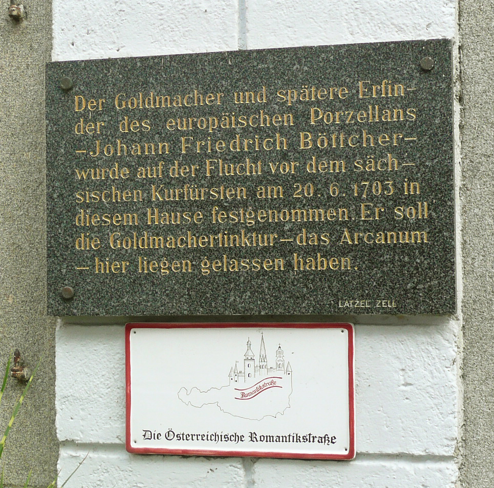 Böttger was captured in this house in Enns (Upper Austria) in June 1703